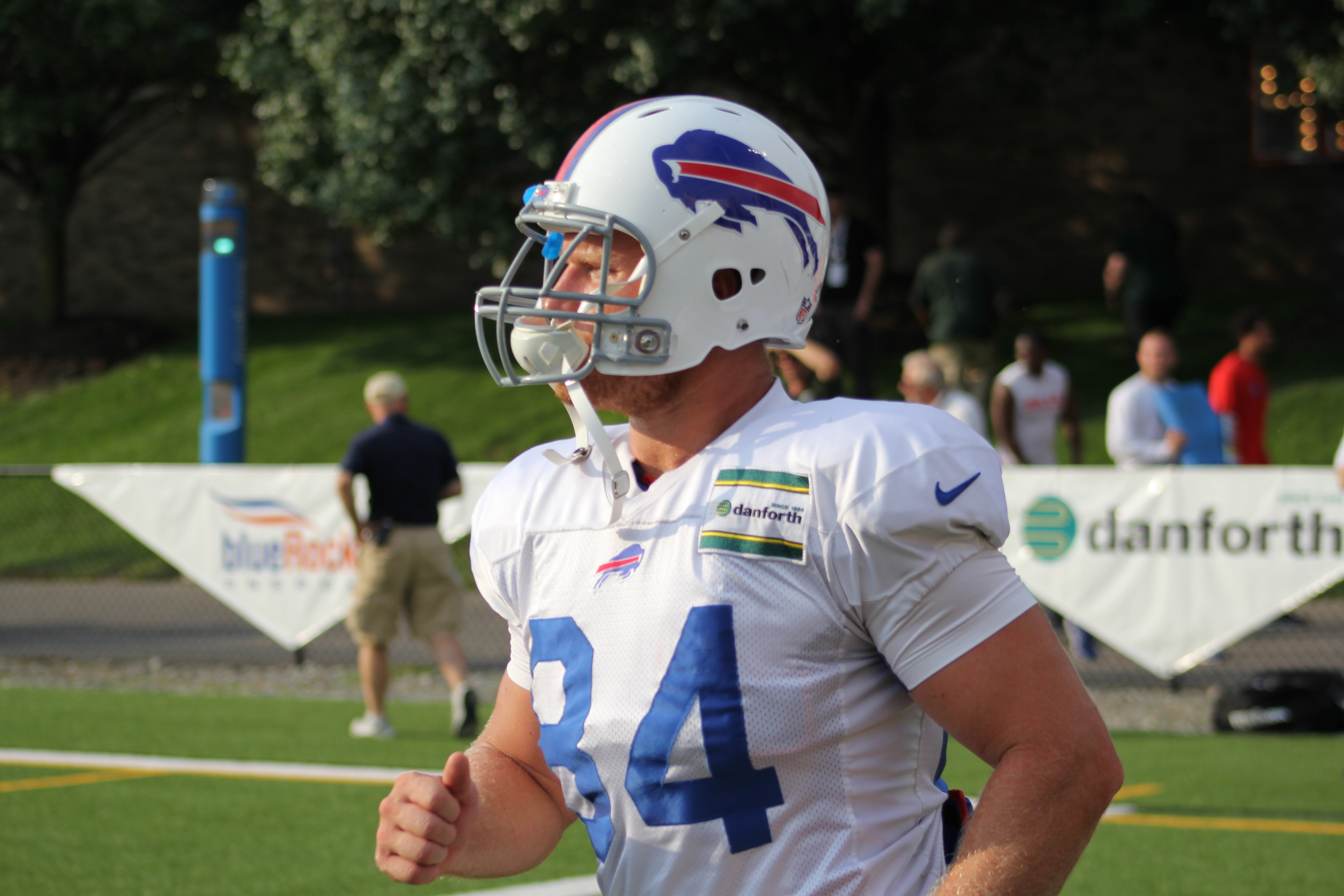 Camp 2015